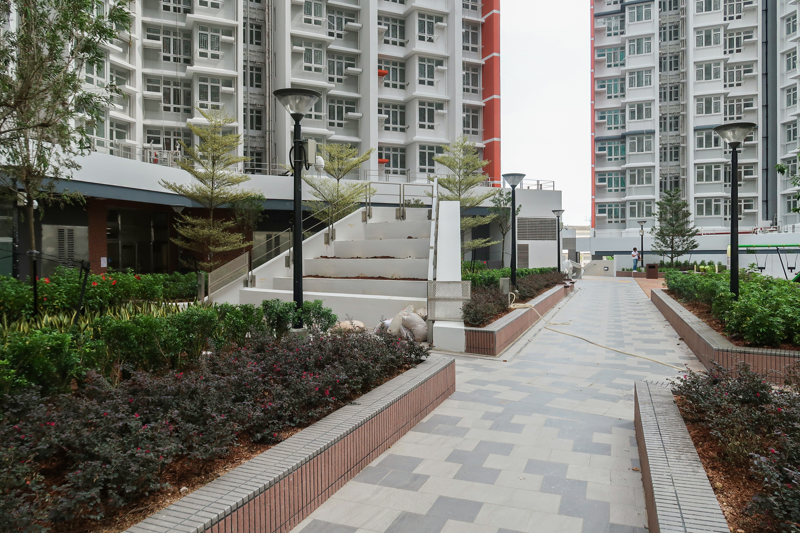 Hoi Lok Court Landscape Area